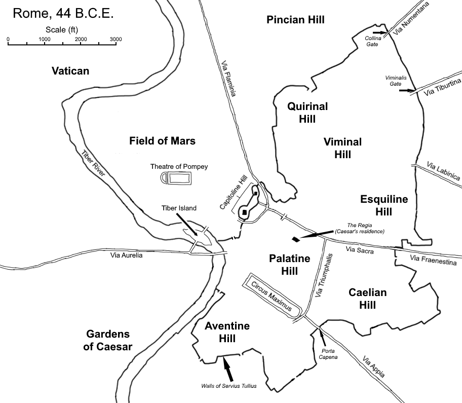 The city of Rome in 44 B.C.E. Simplified version of map located in pages 808-809 of "A classical dictionary of Greek and Roman biography, mythology and geography" (1899, public domain) and made accurate with 44 B.C.E. with information from the map located on page 13 of "The Ides: Caesar's Murder and the War for Rome" (drawn by D.L.McElhannon, copyrighted 2009). Location of seven hills retrieved from File:Seven Hills of Rome.svg